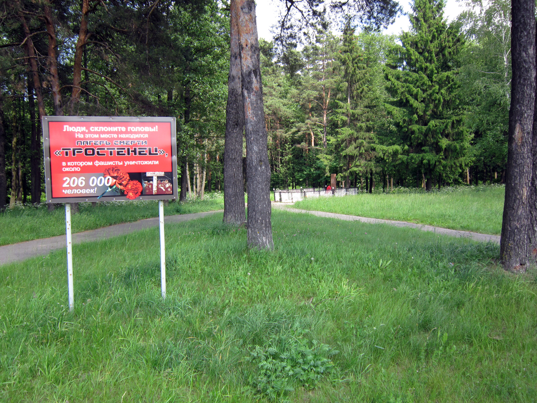 Memorial sign on a place of Maly Trastsianets extermination camp (Minsk, Belarus). Inscription (literal translation) on the sign: «On this place fascist torturers burned peaceful Soviet people»; inscription on the plate: «People, bow your heads! On this place Maly Trastsianets extermination camp was situated, where fascists killed 206 000 men»